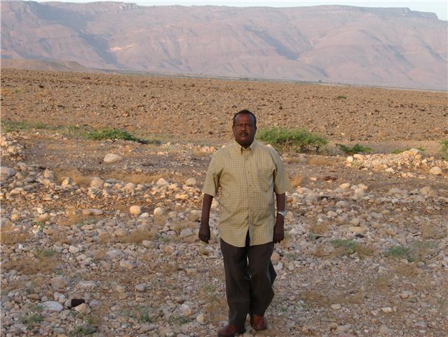 Picture I took of Mohamud Muse Hersi